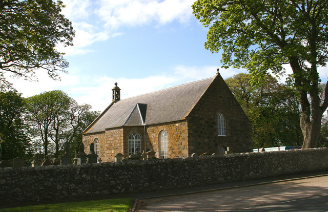 Foveran Parish Church.